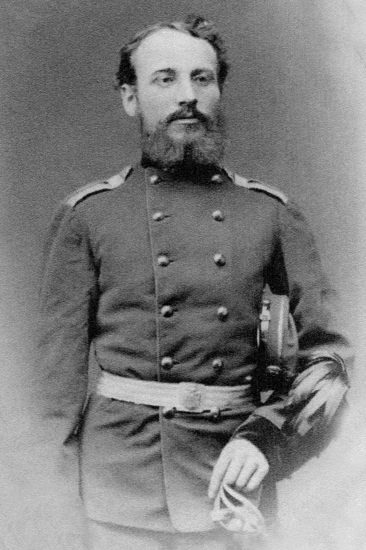 Sava Grujic 1876